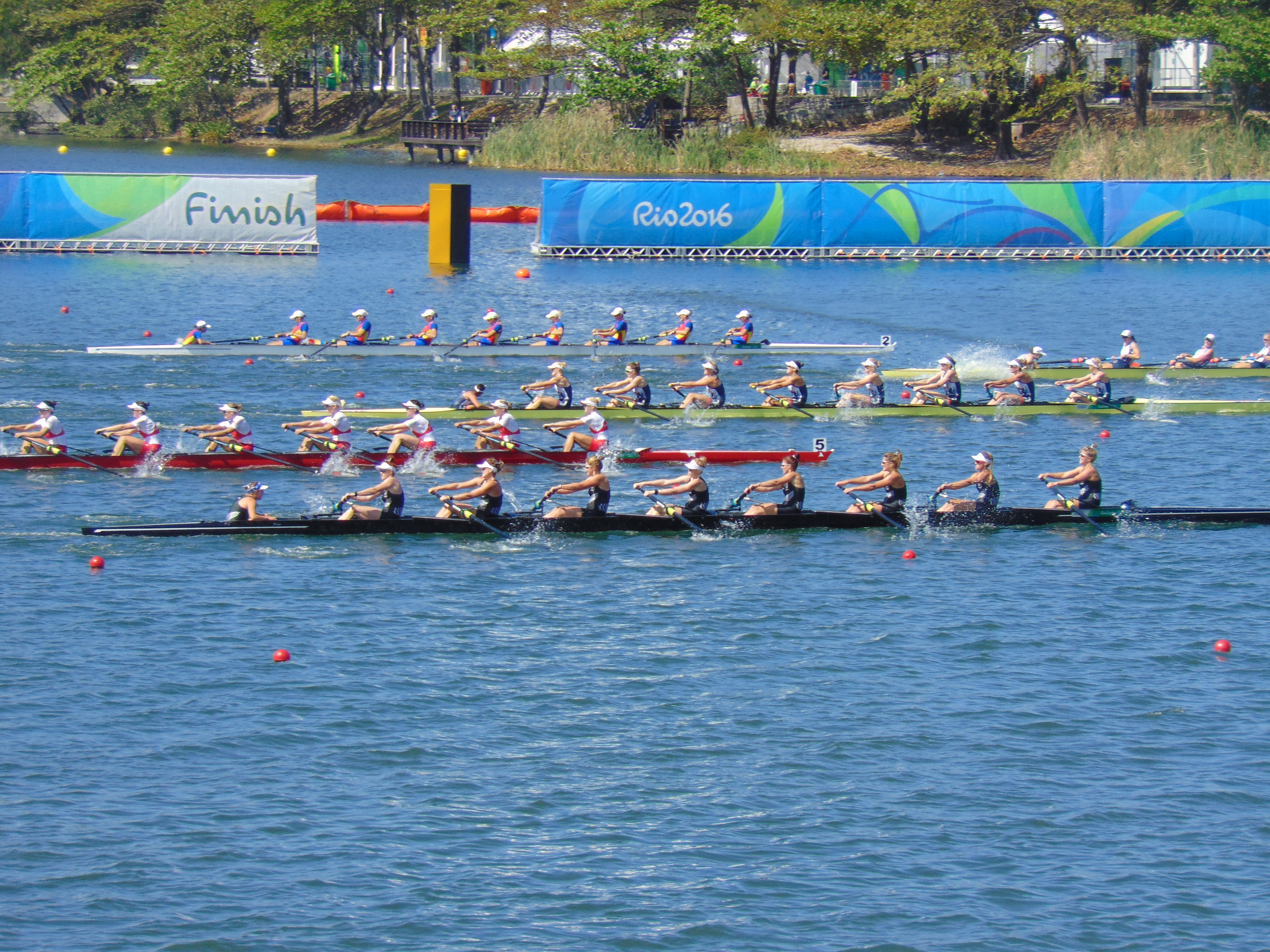 Rio 2016 - Rowing 8 August